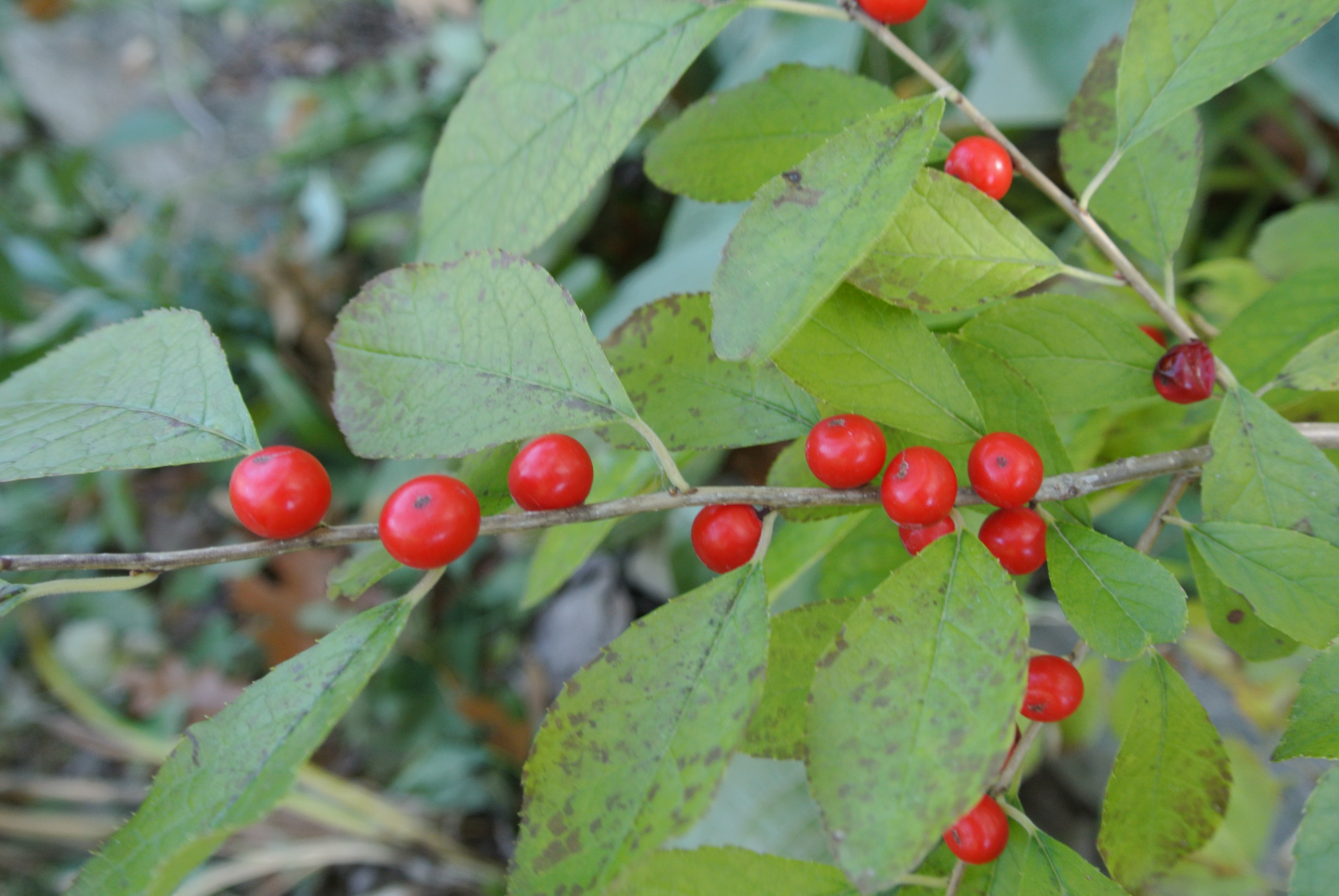 Ilex verticillata in the garden of botanist Robert R. Kowal, Madison, Wisconsin